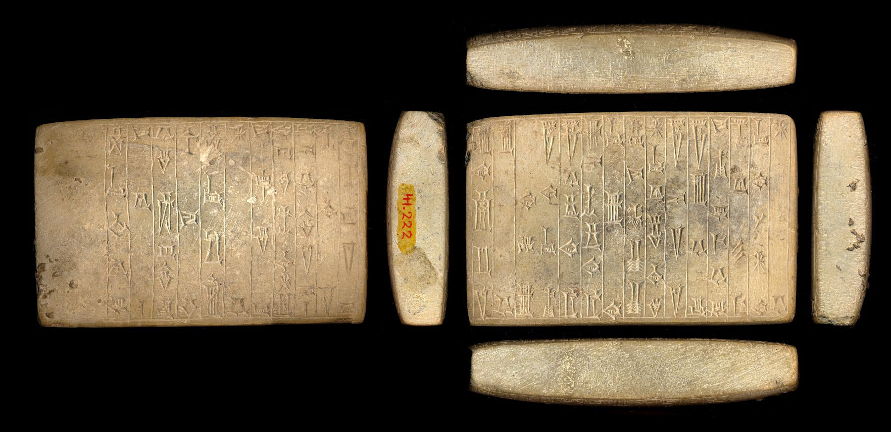 Mesopotamian - Stone Foundation Tablet - Walters 41222 - View A (horizontal)